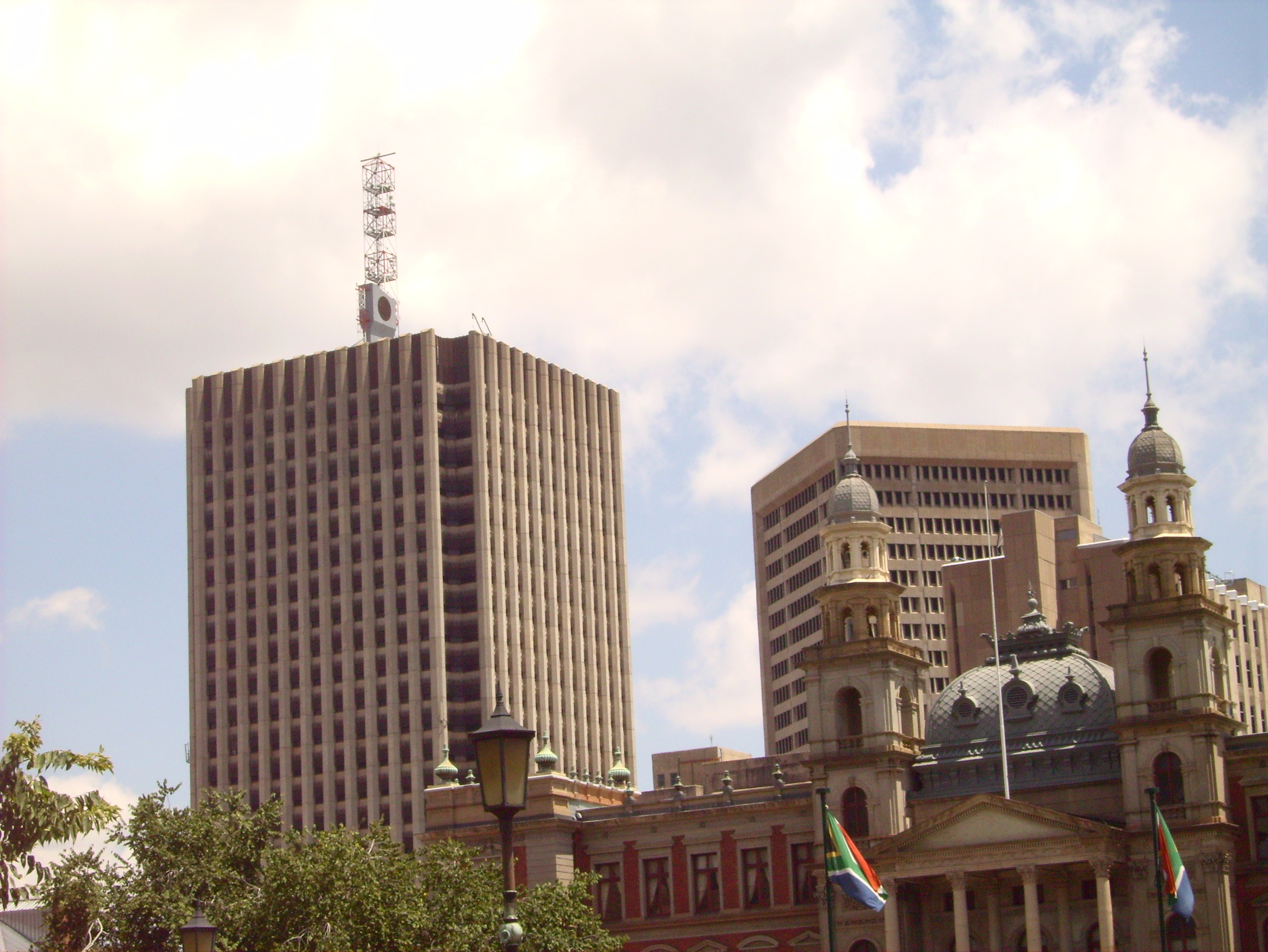 Pretoria, Church Square (View N) Telkom SA Headoffice in the back